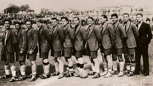 Picture of CDJ Oran team of soccer football in 1934